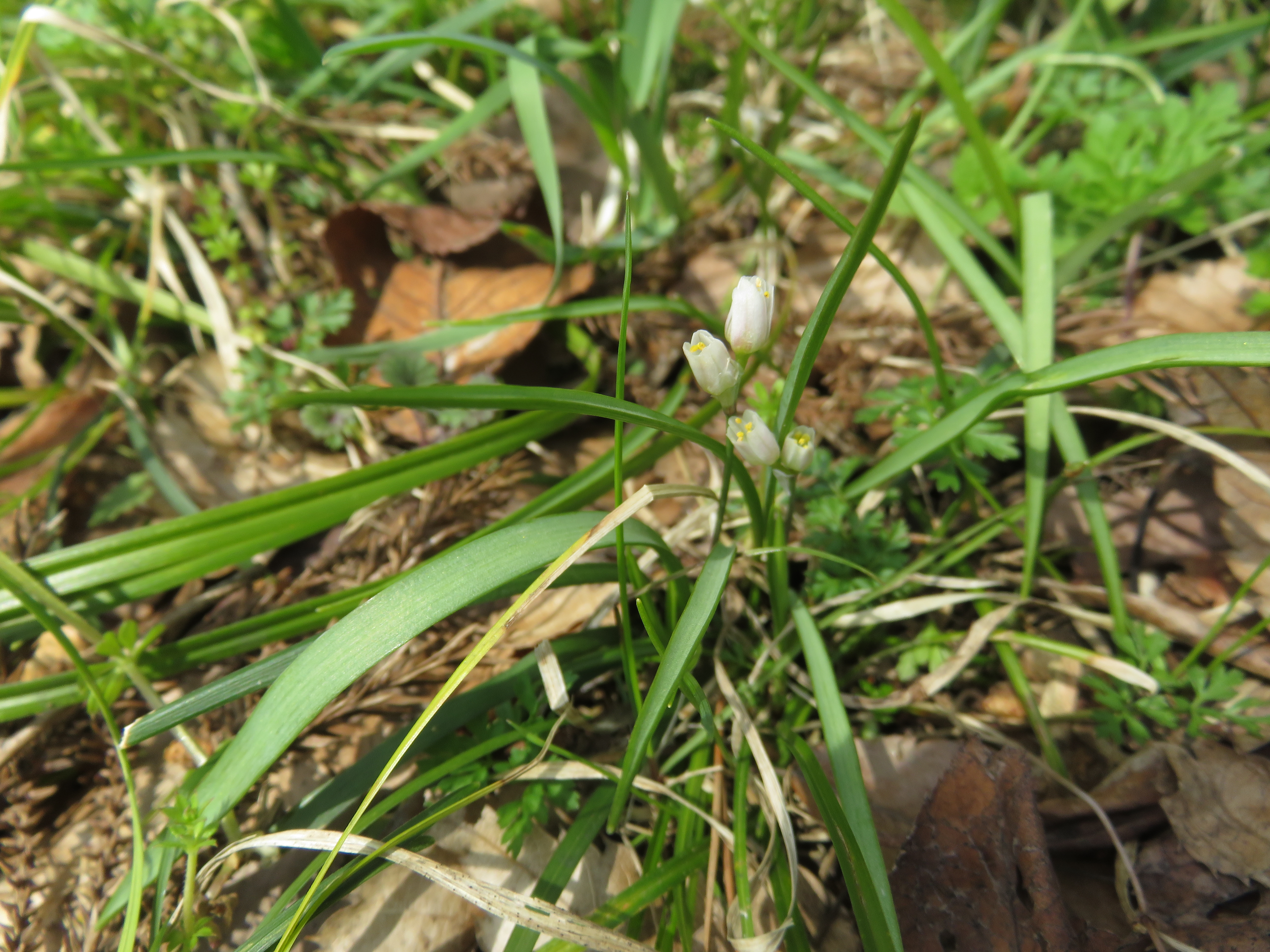 Allium monanthum, male flowers, Aizu area, Fukushima pref., Japan